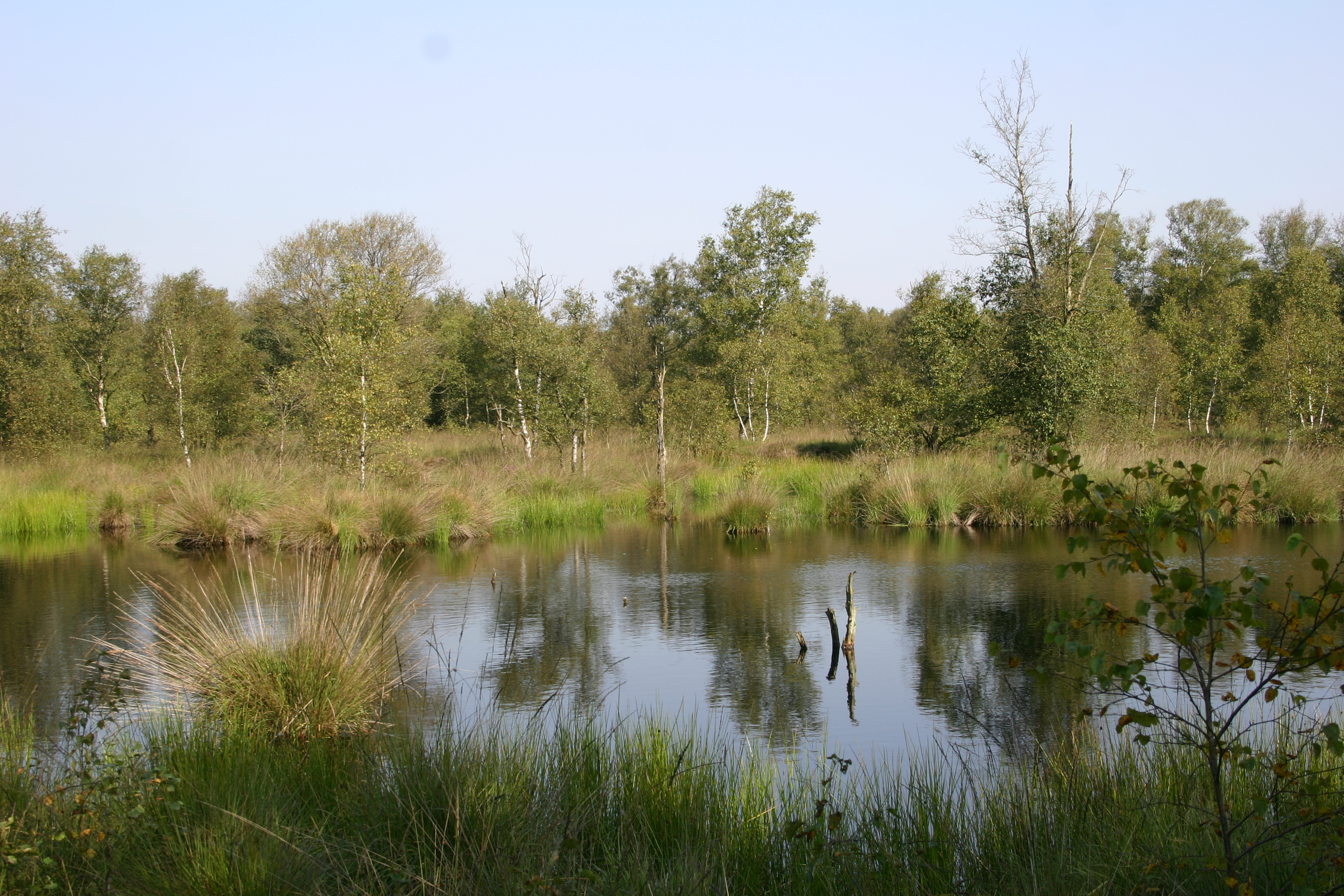 Fen area "Kollrunger Moor", a nature reserve, in the community of Friedeburg, district of Wittmund, East Frisia, Germany